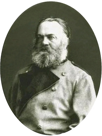 Karl Franz Türmer (1824—1900) — Russian practical forester of German descent